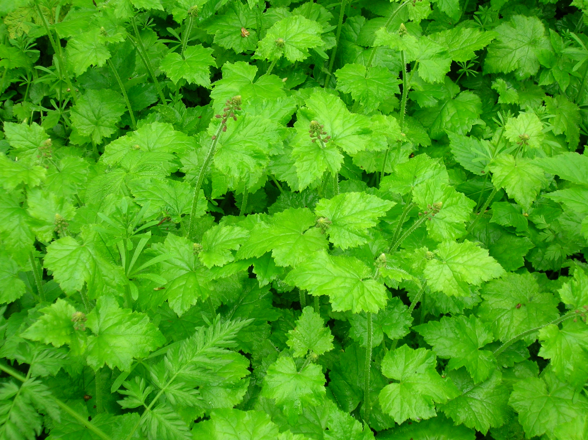 Tolmiea menziesii - the Piggy Back plant at Eglinton, North Ayrshire, Scotland.